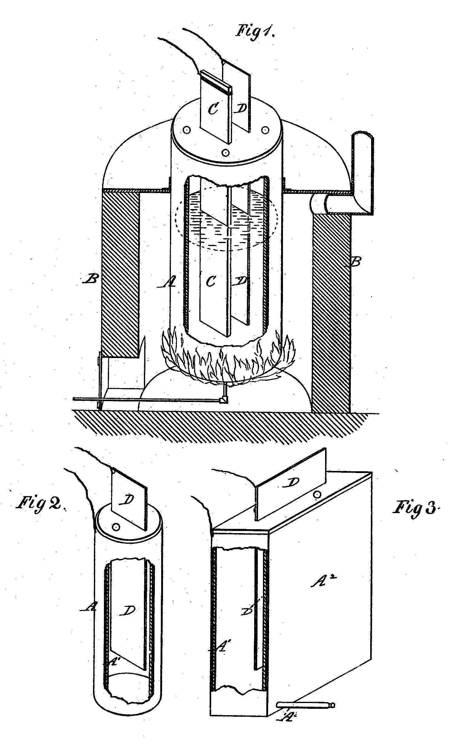 Hall's patent on aluminum electrolysis